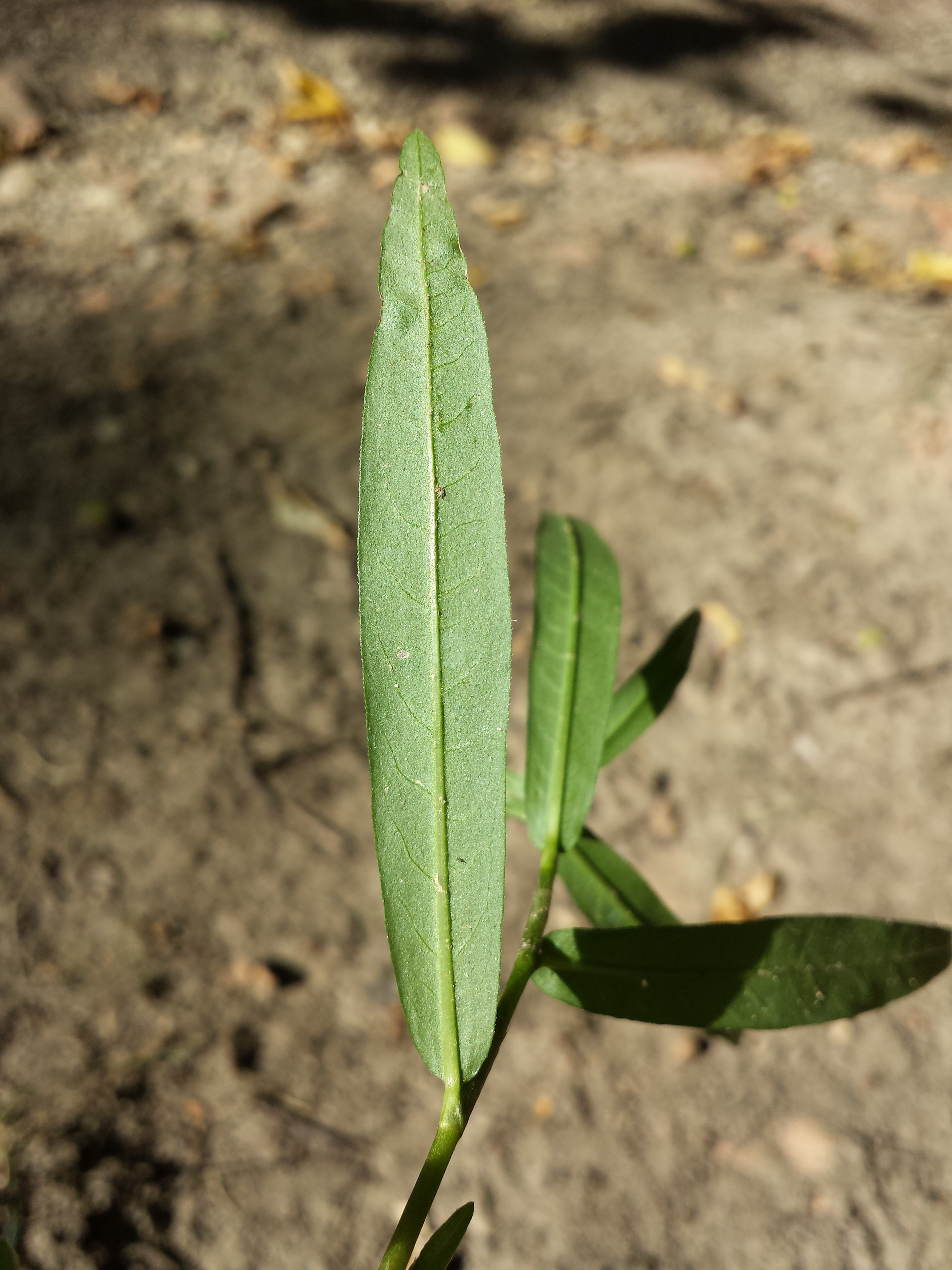 Stem with leaves Taxonym: Persicaria minor ss Fischer et al. EfÖLS 2008 ISBN 978-3-85474-187-9 Location: Glasweiner Wald northeast of Füllersdorf, district Korneuburg, Lower Austria - ca. 325 m a.s.l. Habitat: forest track